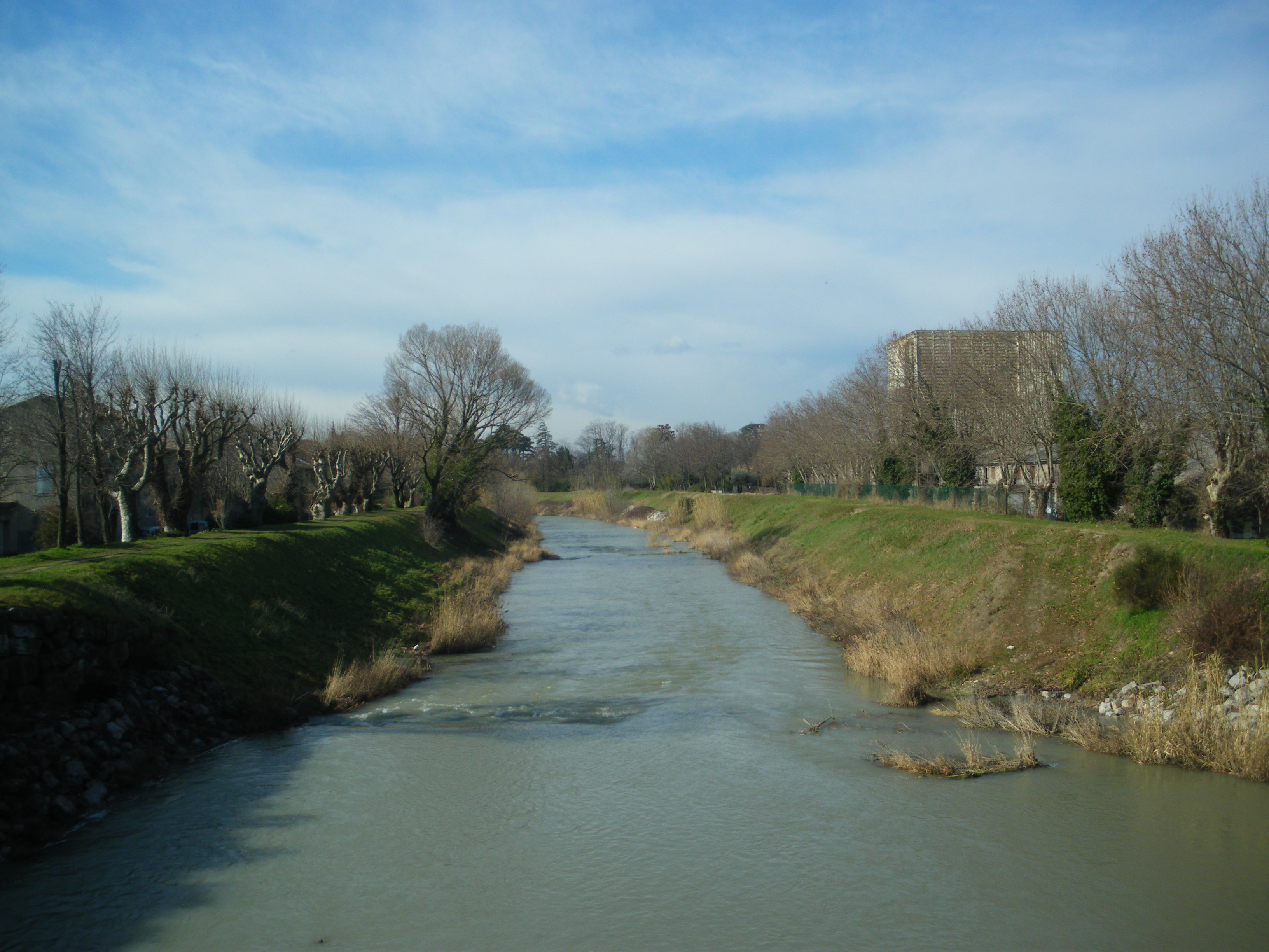 Lez river in Bollène, Vaucluse, France